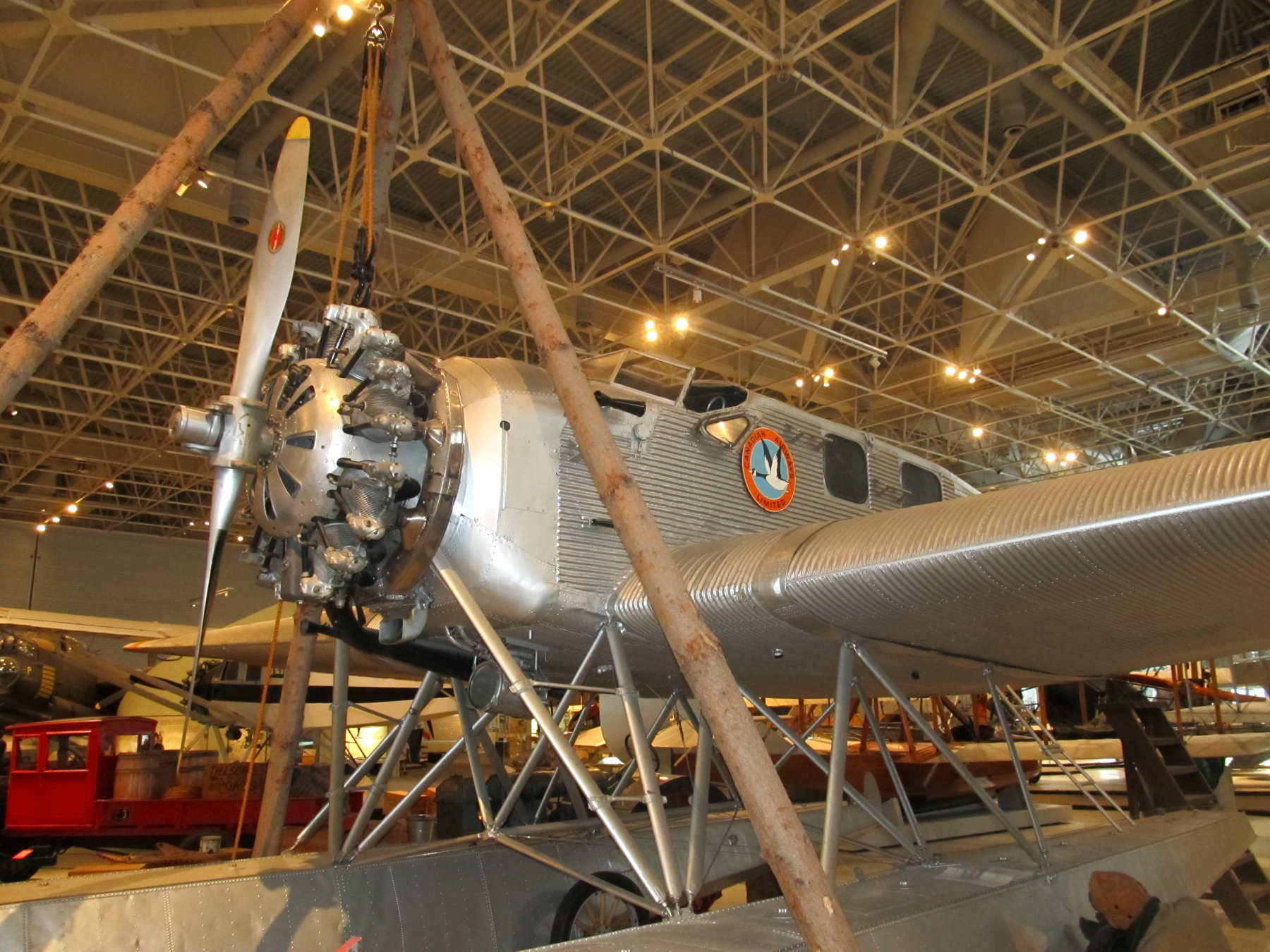 Junkers W34 at the Canadian Air and Space Museum, Ottawa.